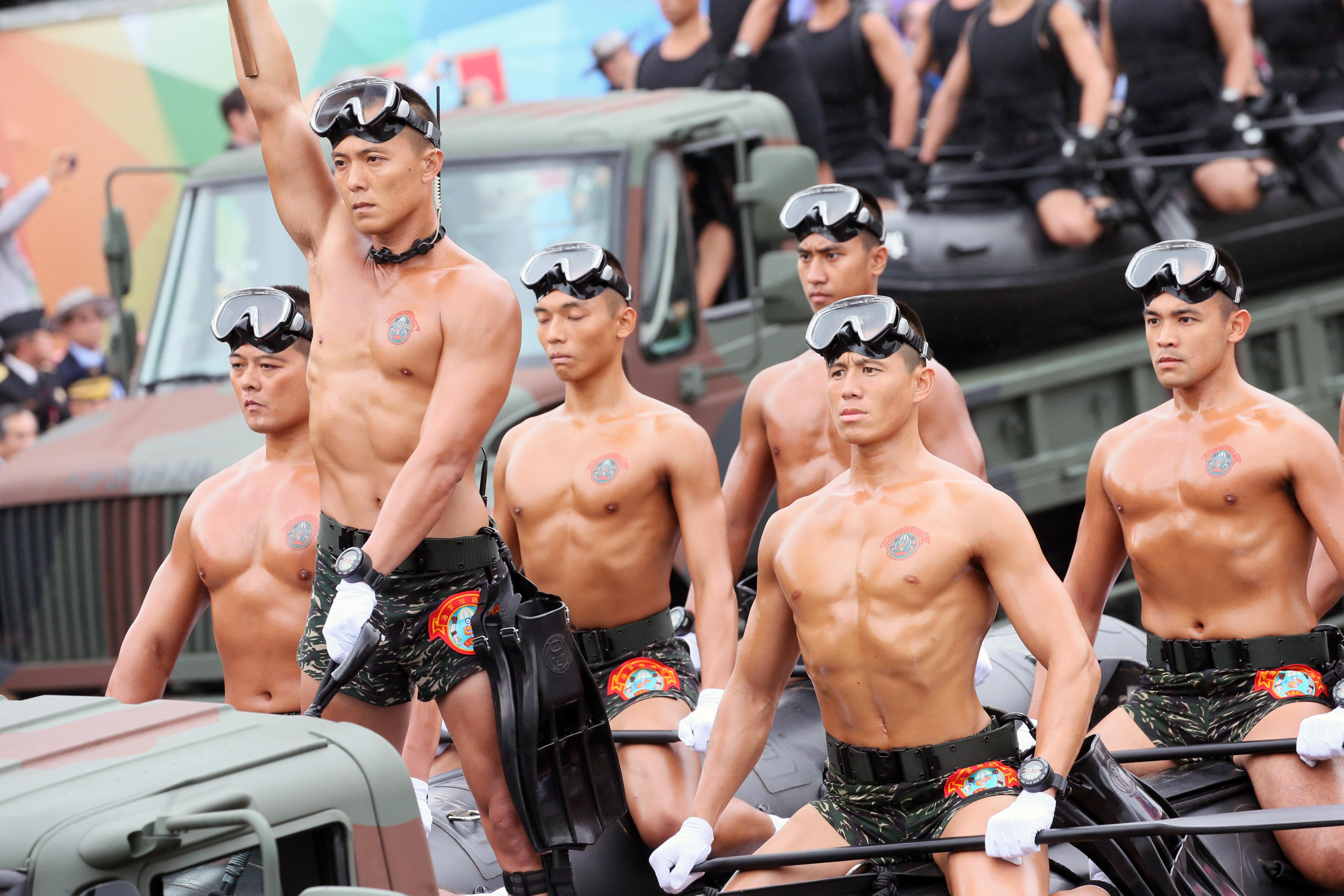 The ROC Marine Corps impress people with their combat skills during the ROC 2016 National Day celebration.